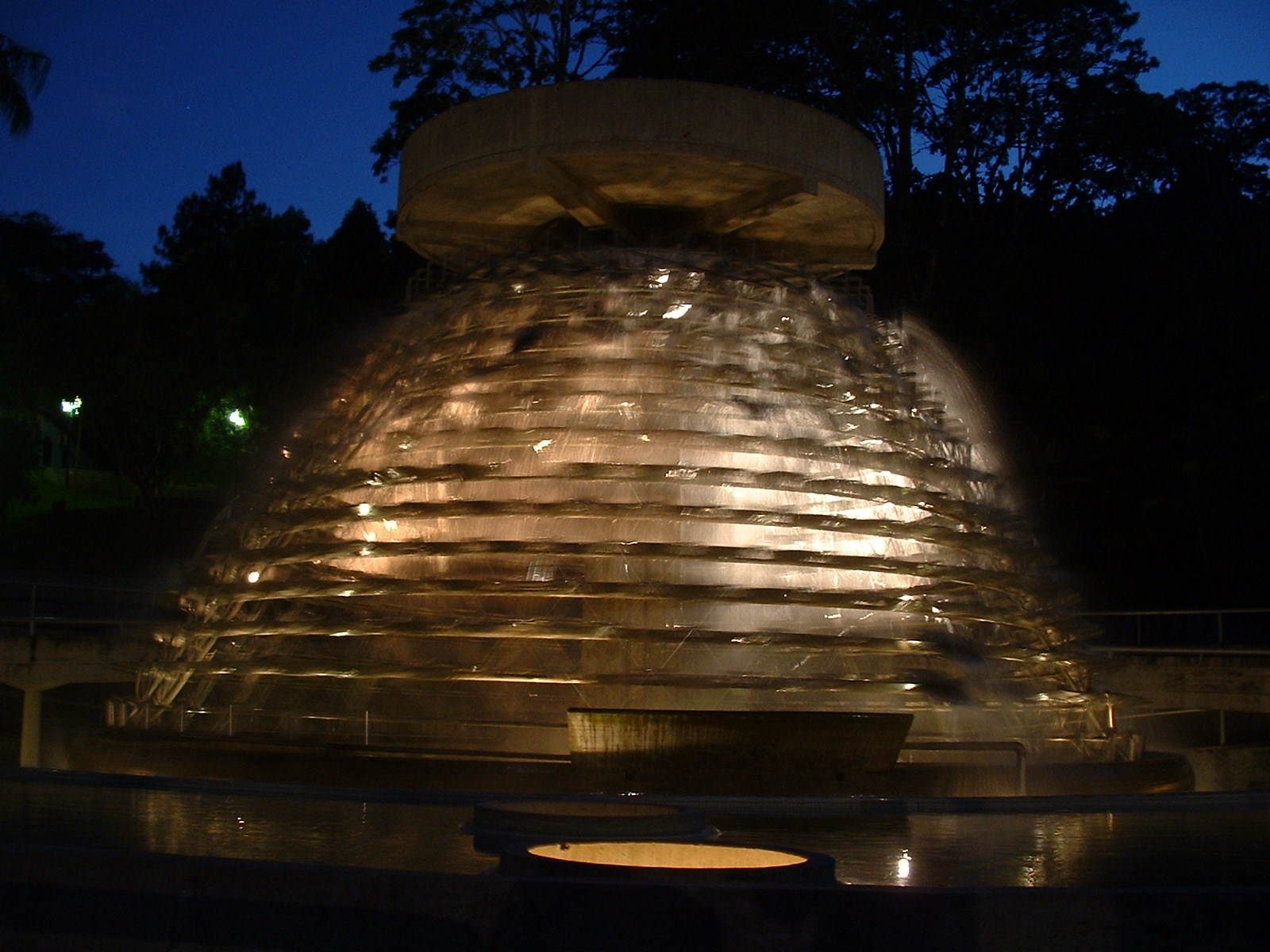 Complex water fountain that was design from a contest student in 1974 at the Simón Bolívar University. It toke over 16 years to complete it, and officially inaugurated on July, 5 of 1991 by the conduction of PhD Professor Stefan Zarea. The fountain is now turned on in special events like graduations and the anniversary of the foundation of the university, and since 2008 is under restoration. This photo was taken while in motion on the night of the University's 30th anniversary.